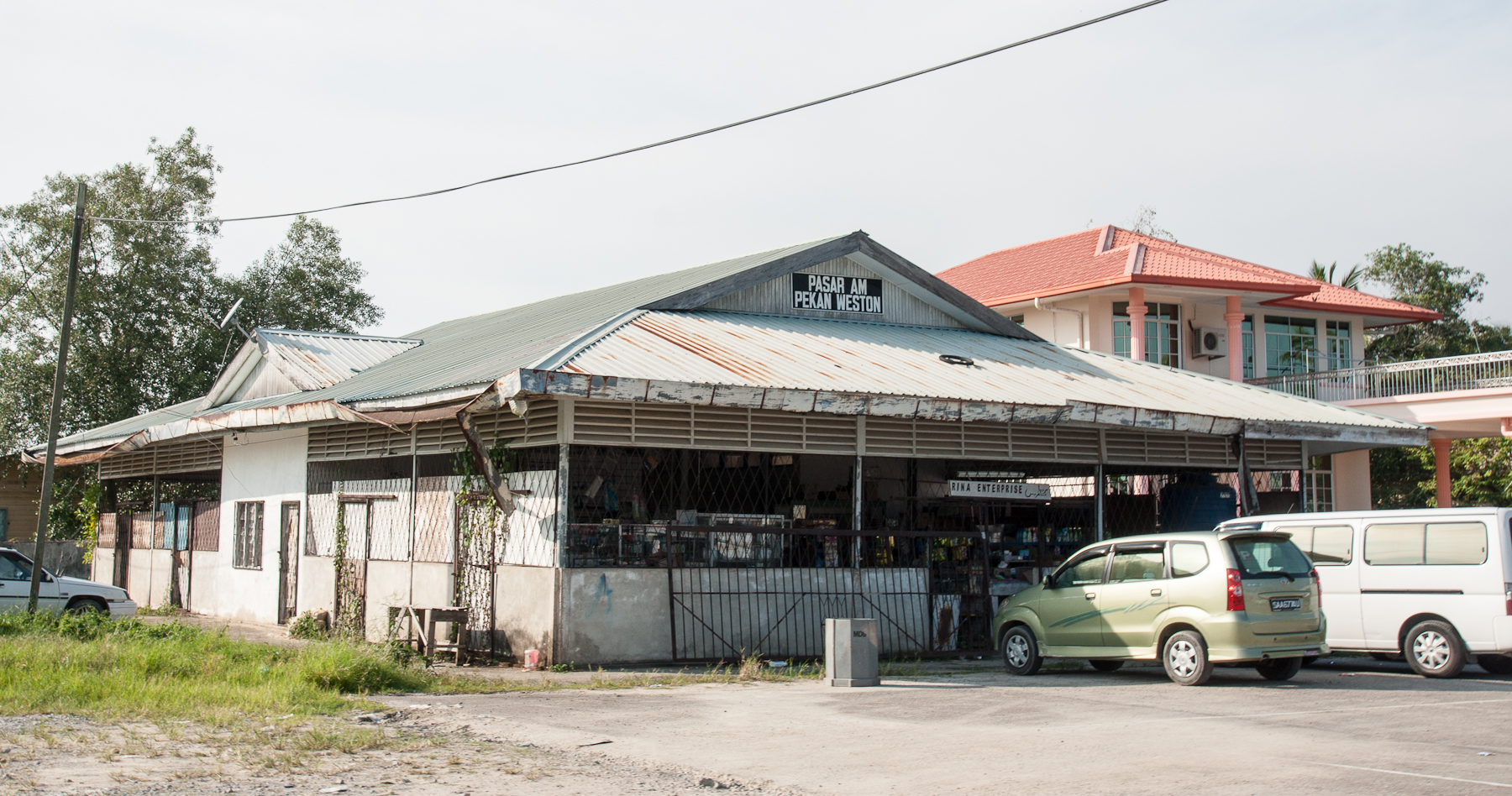 Market (Pasar) of Weston (Sabah)